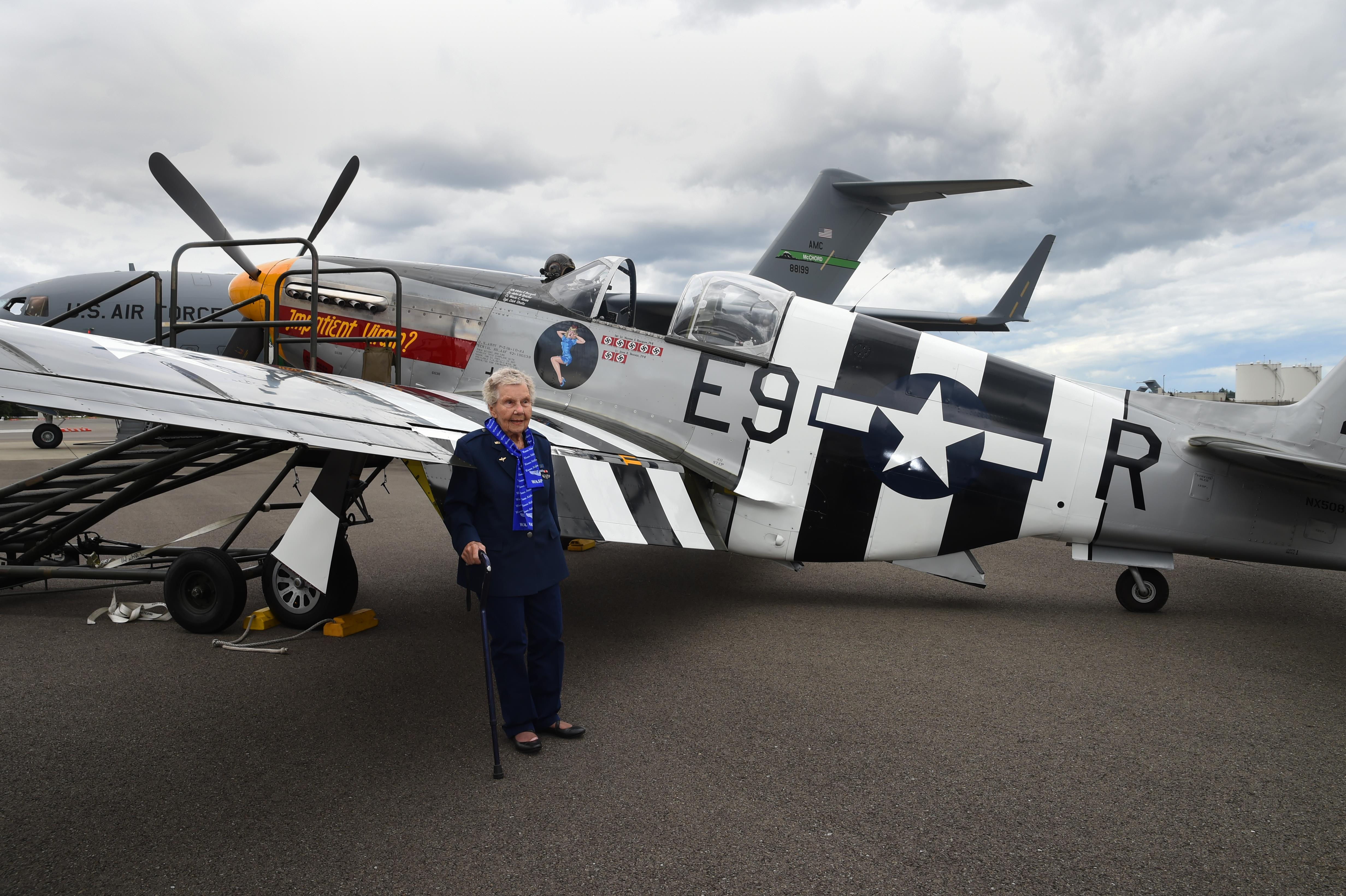 Dorothy Olsen, former Women Airforce Service Pilot, stands in front of a P-51 Mustang on the McChord Field flight line July 10, 2016, at Joint Base Lewis-McChord, Wash. Olsen celebrated her 100th birthday at McChord along with three other WASPs, their families and McChord leadership. (Air Force Photo/Staff Sgt. Naomi Shipley)